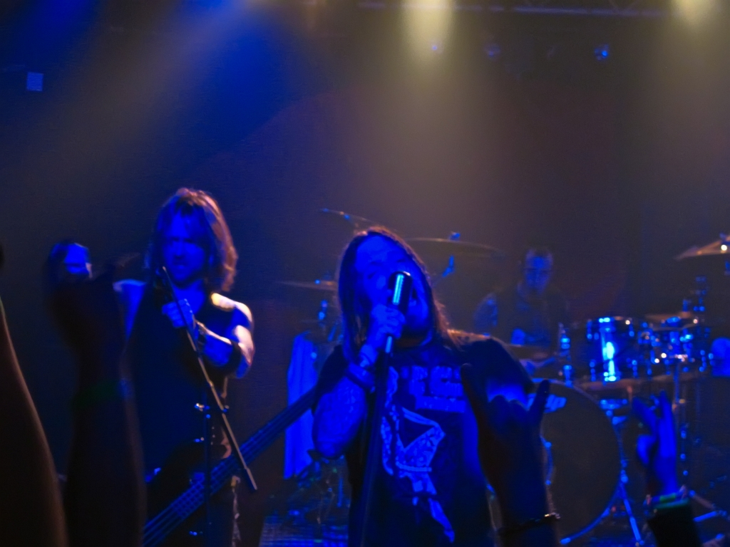 Drowning Pool on Alabama, 2010.